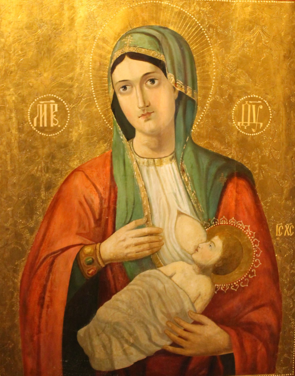 Holy Virgin feeding Baby Christ with Her breast. Ukraine, the beginning of the 20th c. The Museum of Ukrainian home icons, Radomysl Castle